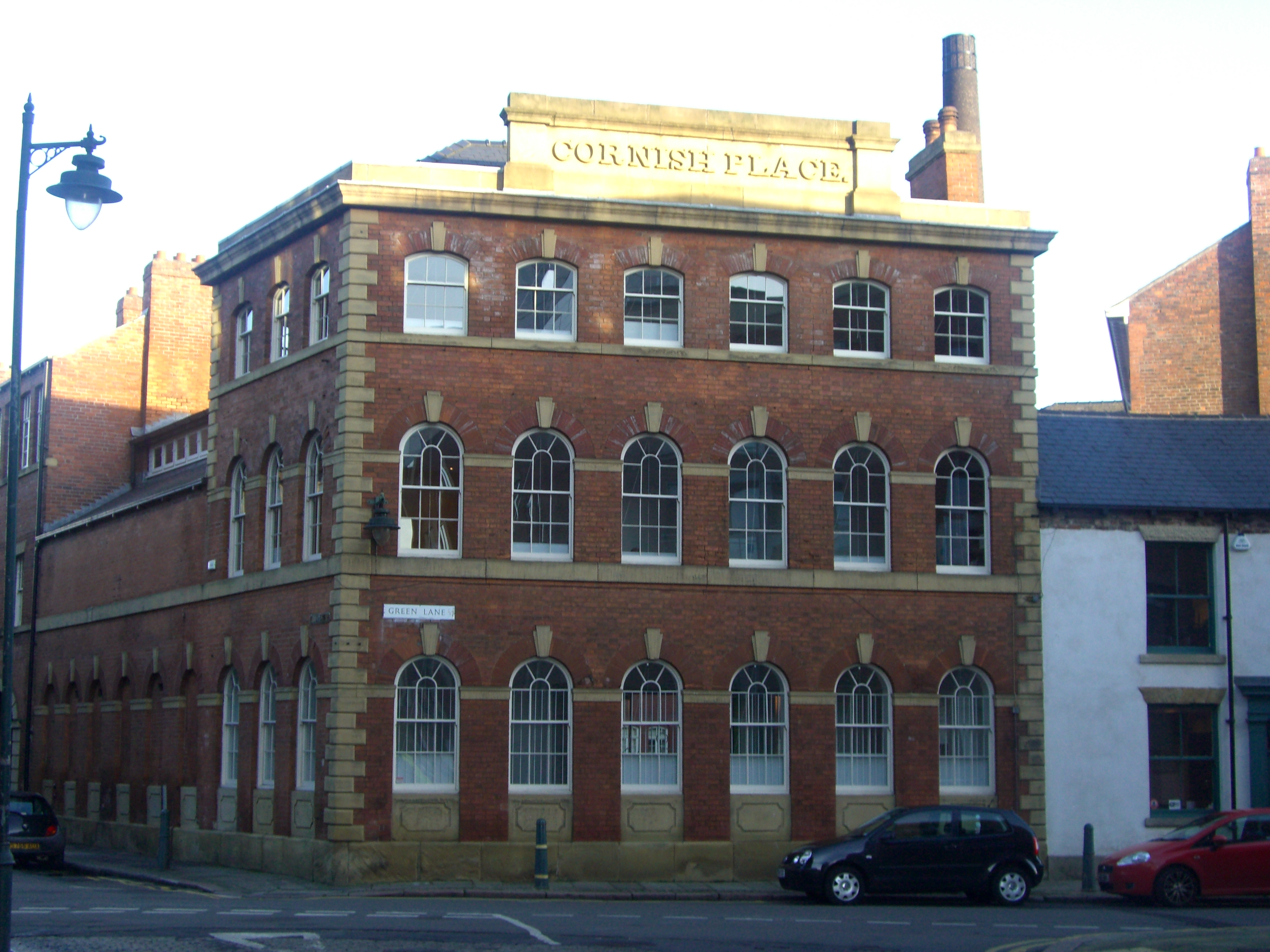 The west range of Cornish Place works in Sheffield, England